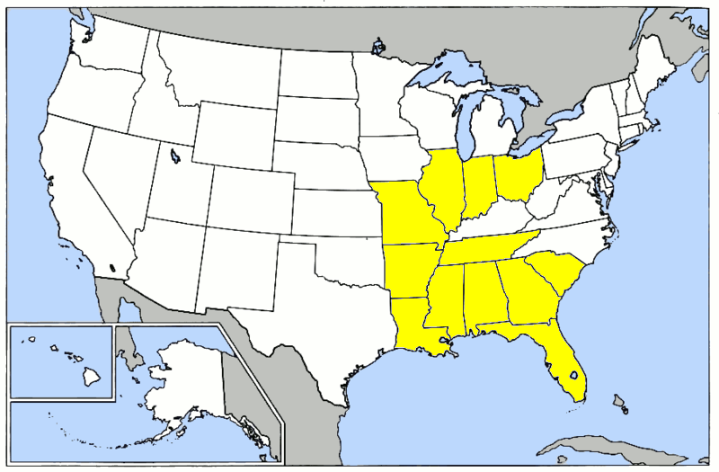 Eastern Flying Training Command. - Map Based upon for basemap; Lineage and History of 31st Flying Training Wing (World War II); United States Air Force Historical Research Agency Document, Maxwell AFB, Alabama